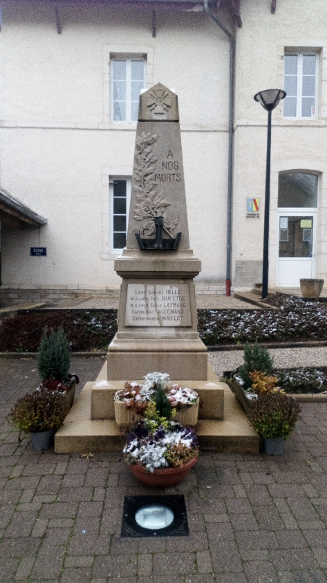 Memorial First world war